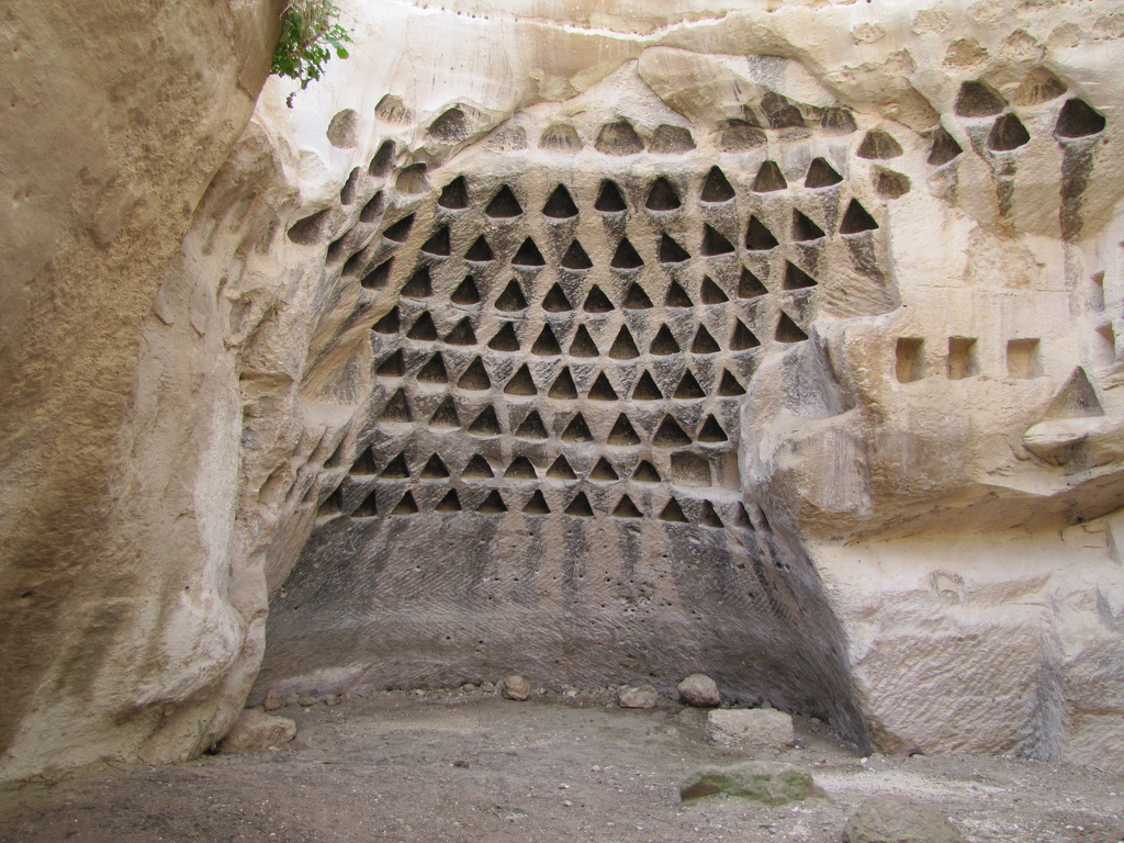 Colombarium cave in Hirbat Midras, Archeological sites of Israel